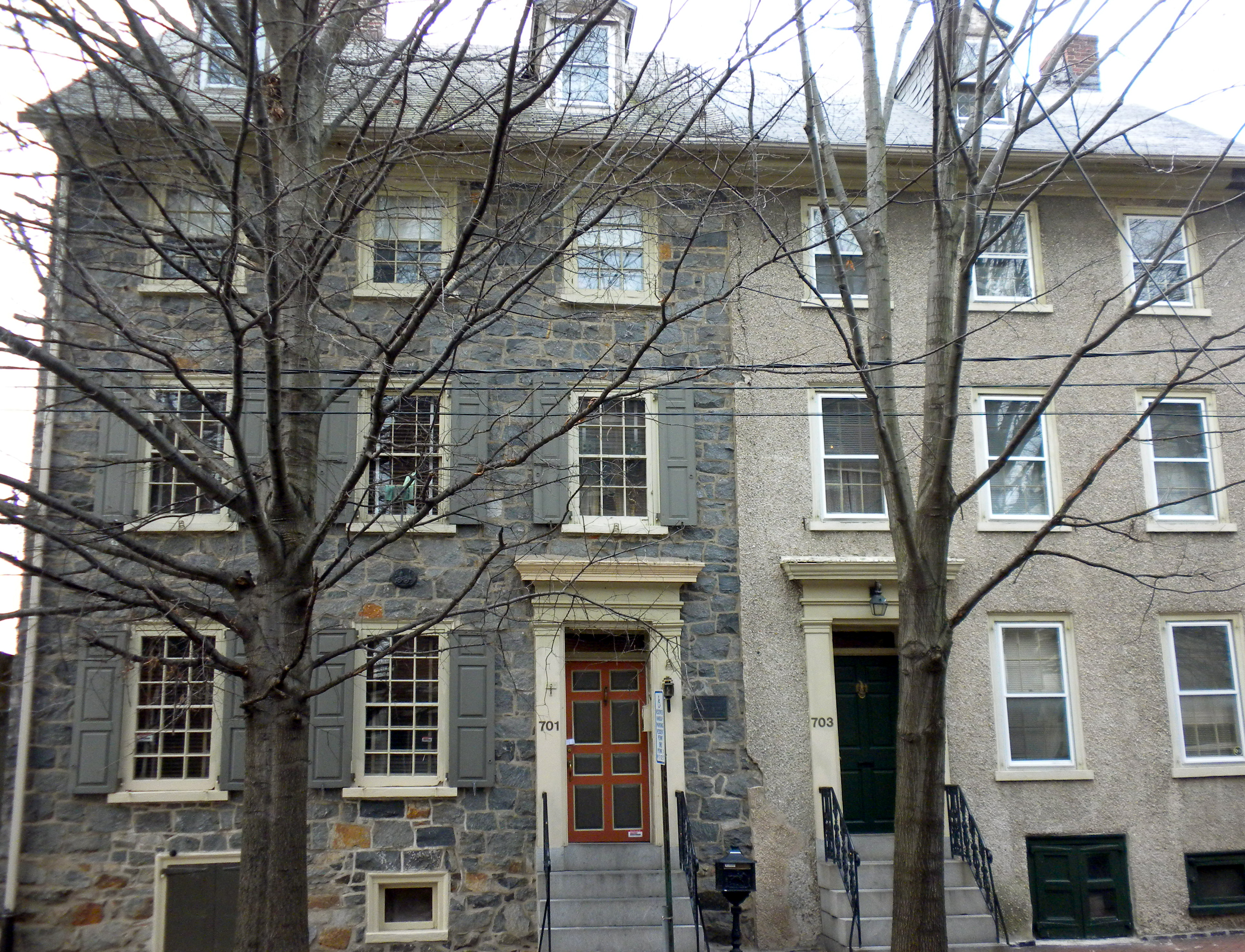 Woodward Houses, 701-703 West St., Wilmington, Delaware. On NRHP. Quaker architecture.